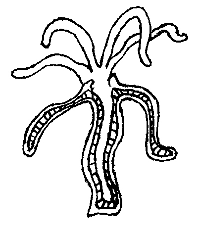 Polyp form of cnidarian